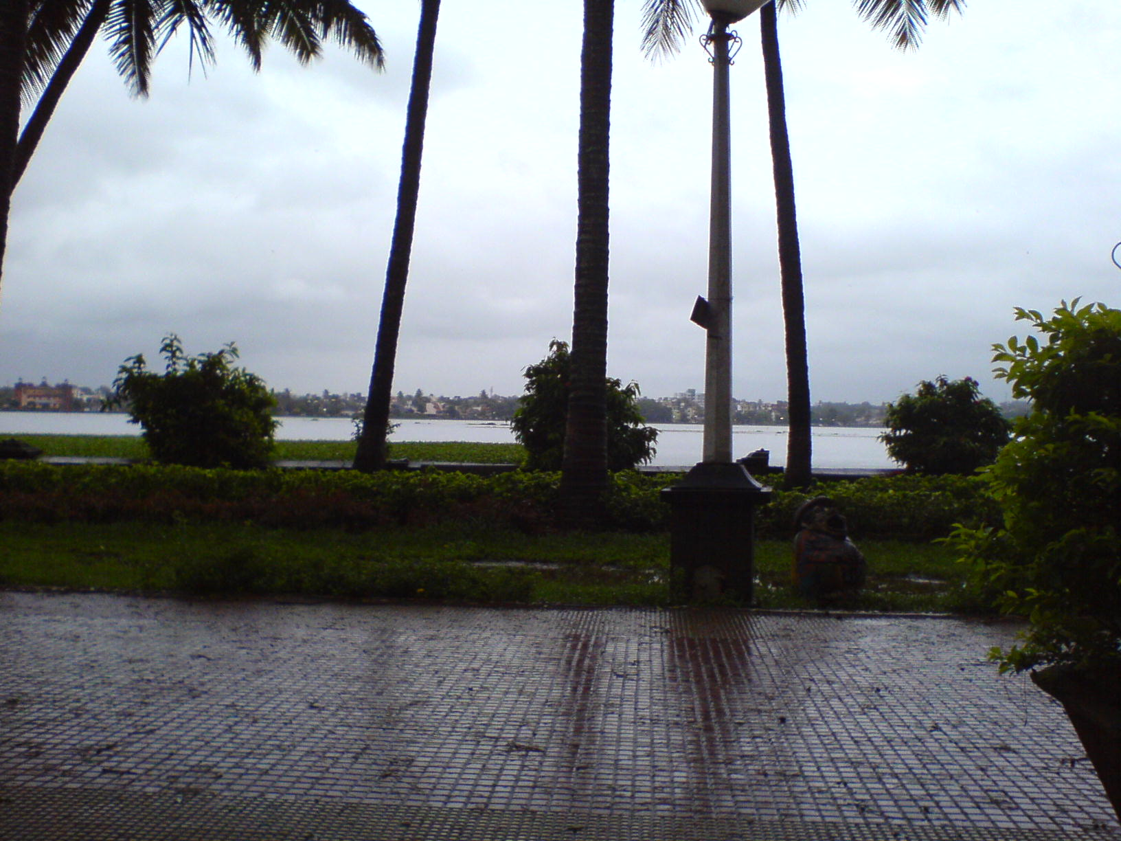 Rankala Lake.